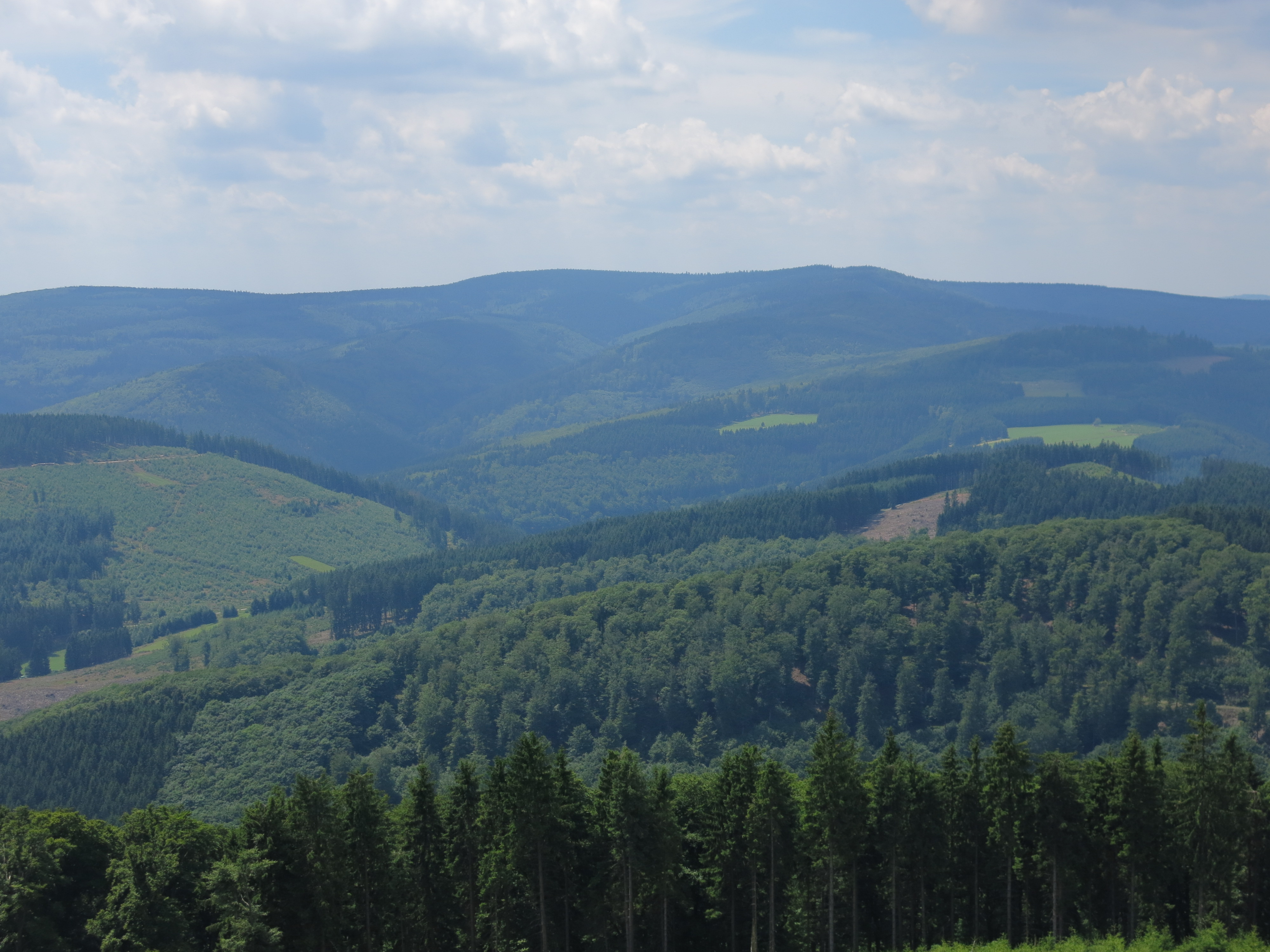 The mountains Wallershöhe and Ziehenhelle in the Rothaar Mountains seen from Northeast (lookout-tower on Bollerberg